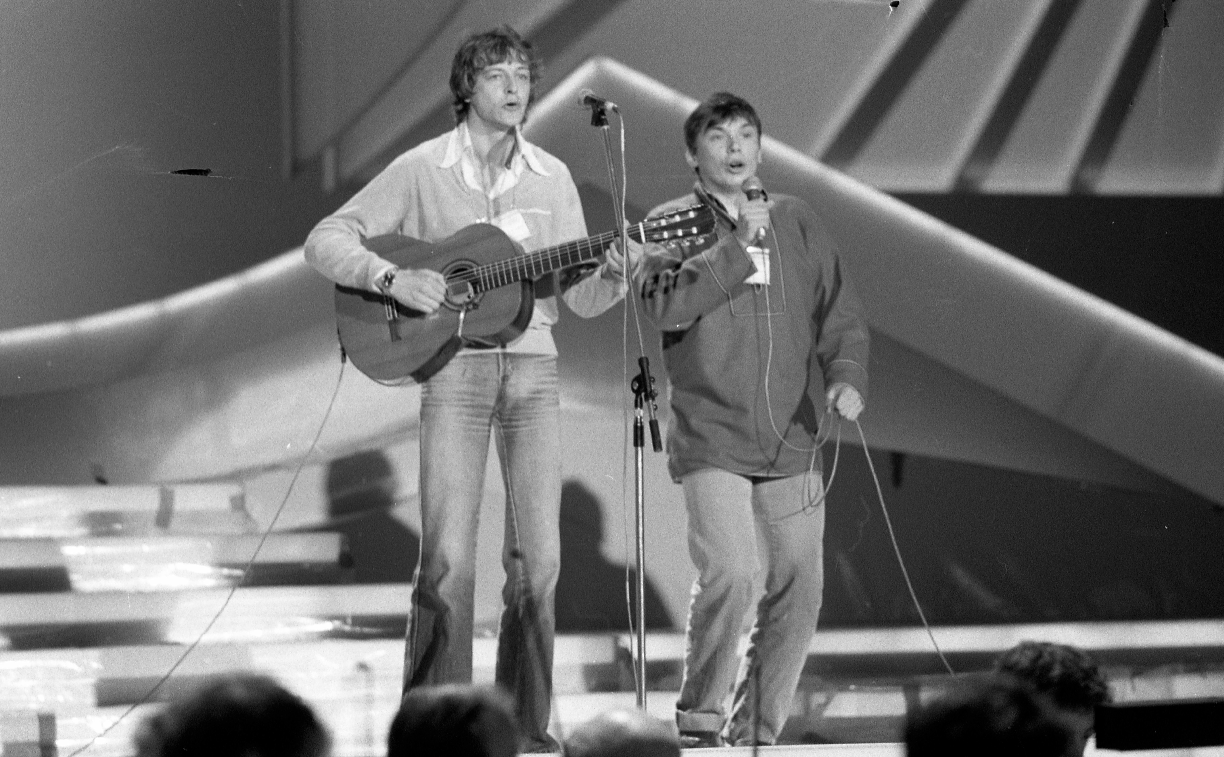 Eurovision Song Contest, Haag, 1980. Foto: Jørn Pettersen. Arkivref.: PA-0797_U_9958_004_A_016